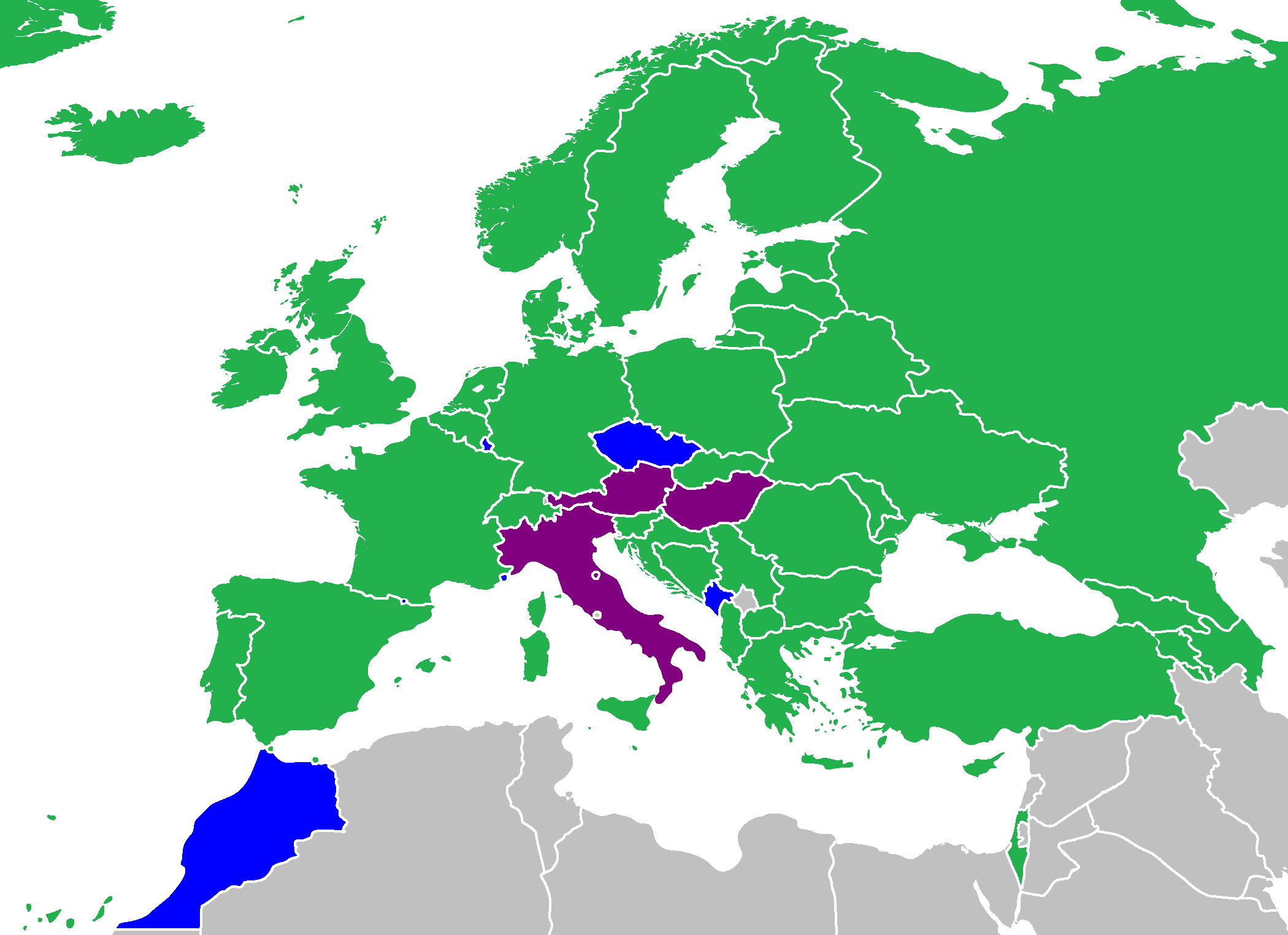 Map of participation nations in Eurovision Song Contest 2011